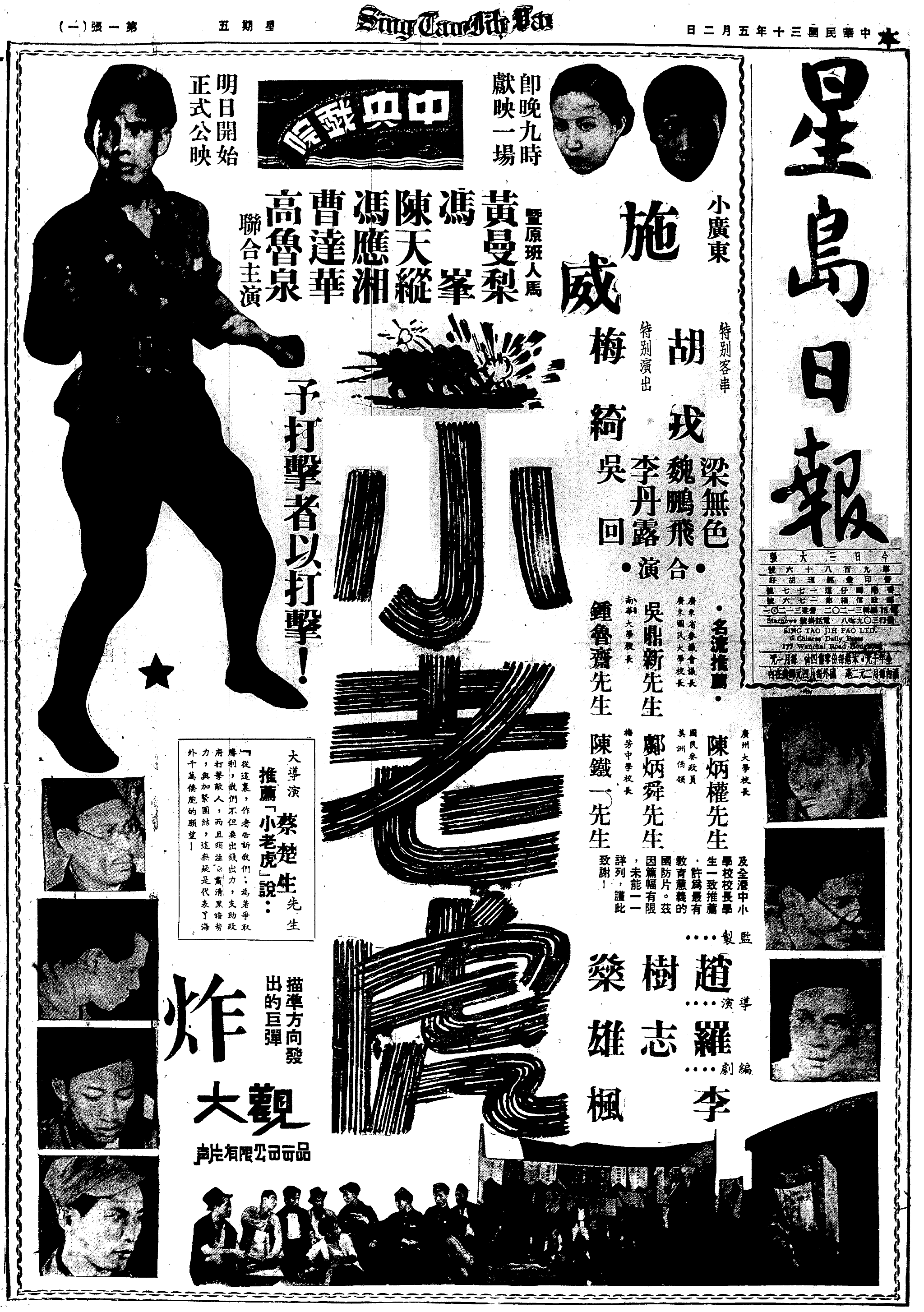 Advertisement of a 1941 release Hong Kong film: The Little Tiger. 中文（香港）: 1941年香港電影《小老虎》的廣告